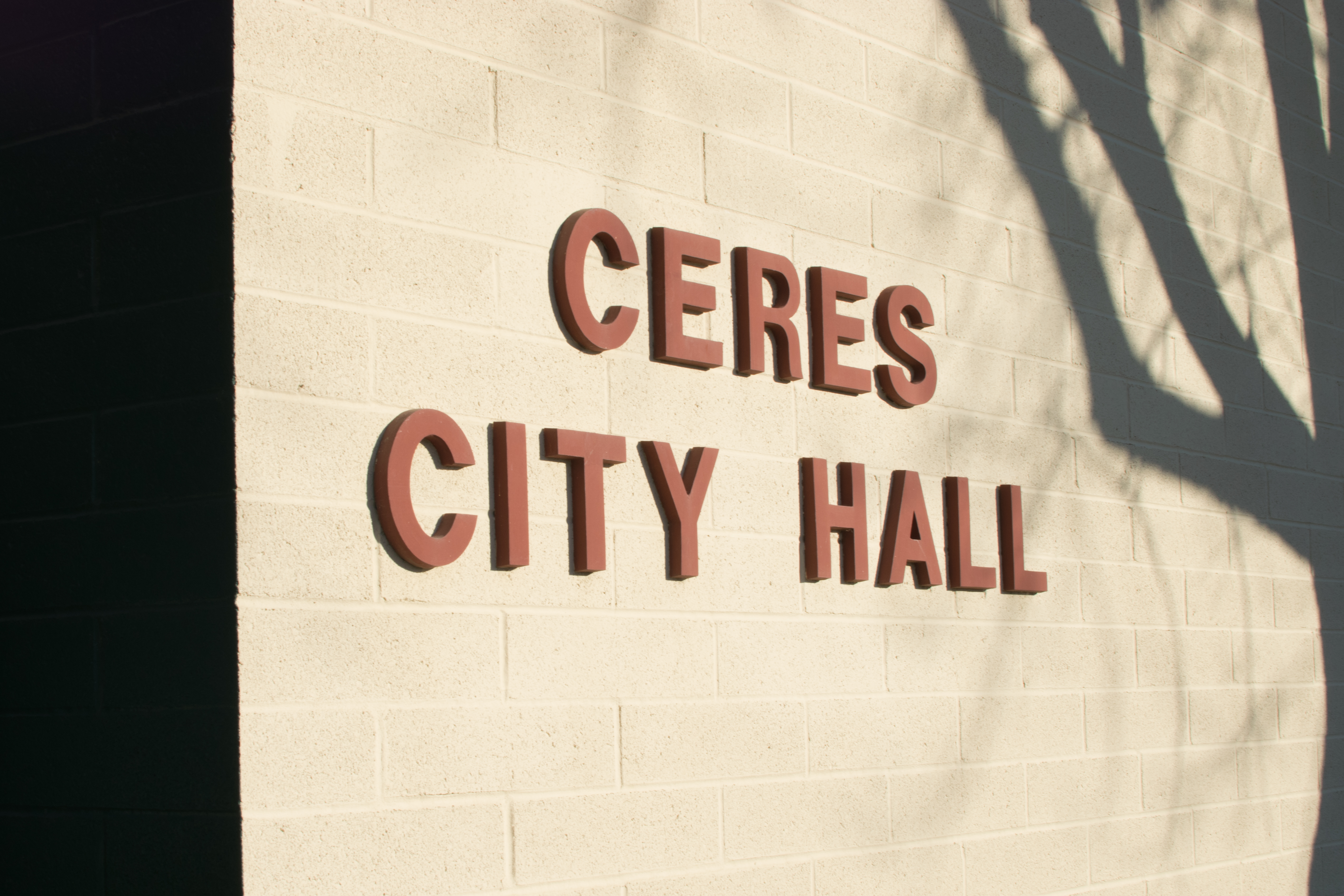 Main entrance sign at city hall in Ceres, California